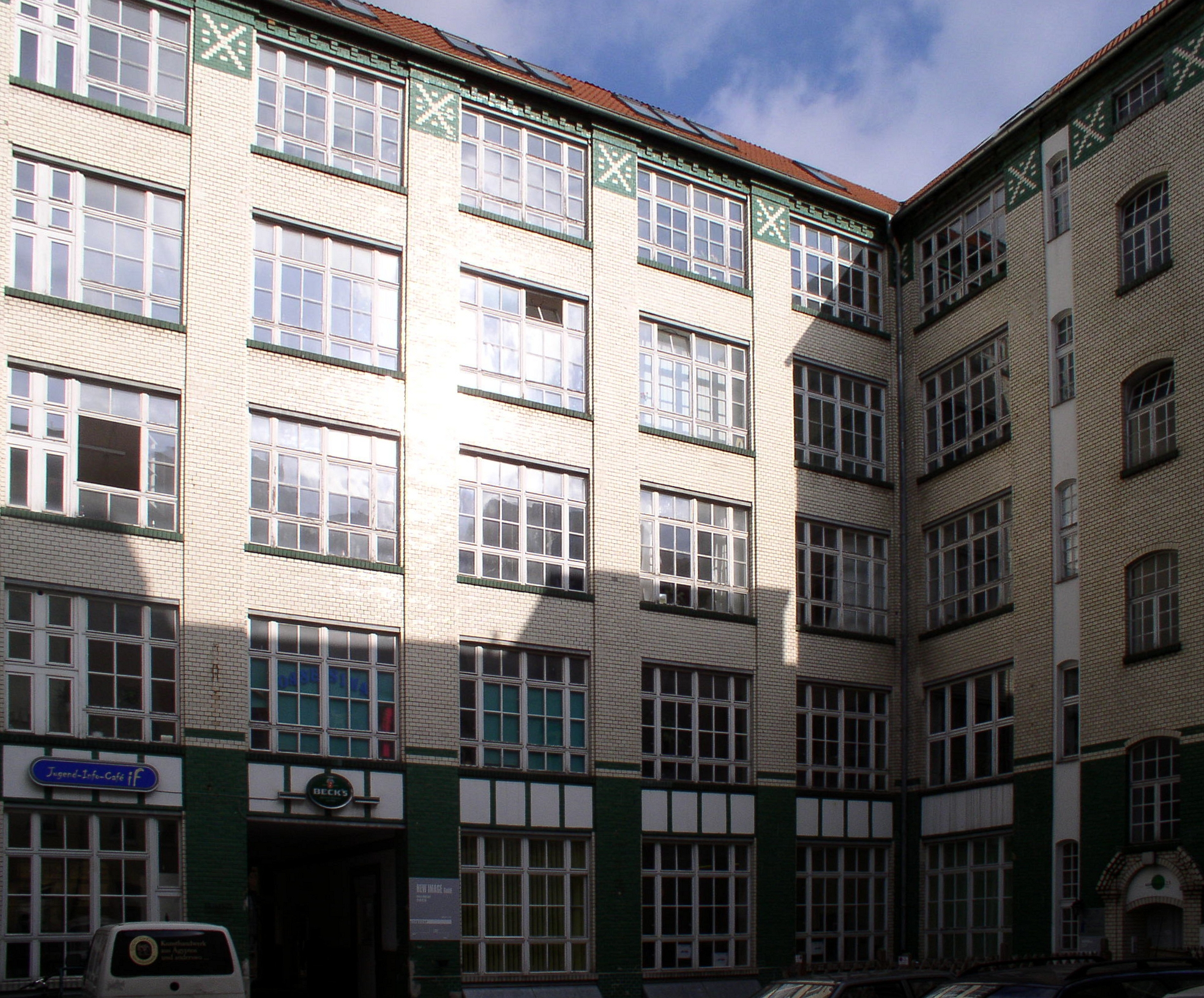 The Kopernikusstraße 26 in Berlin-Friedrichshain